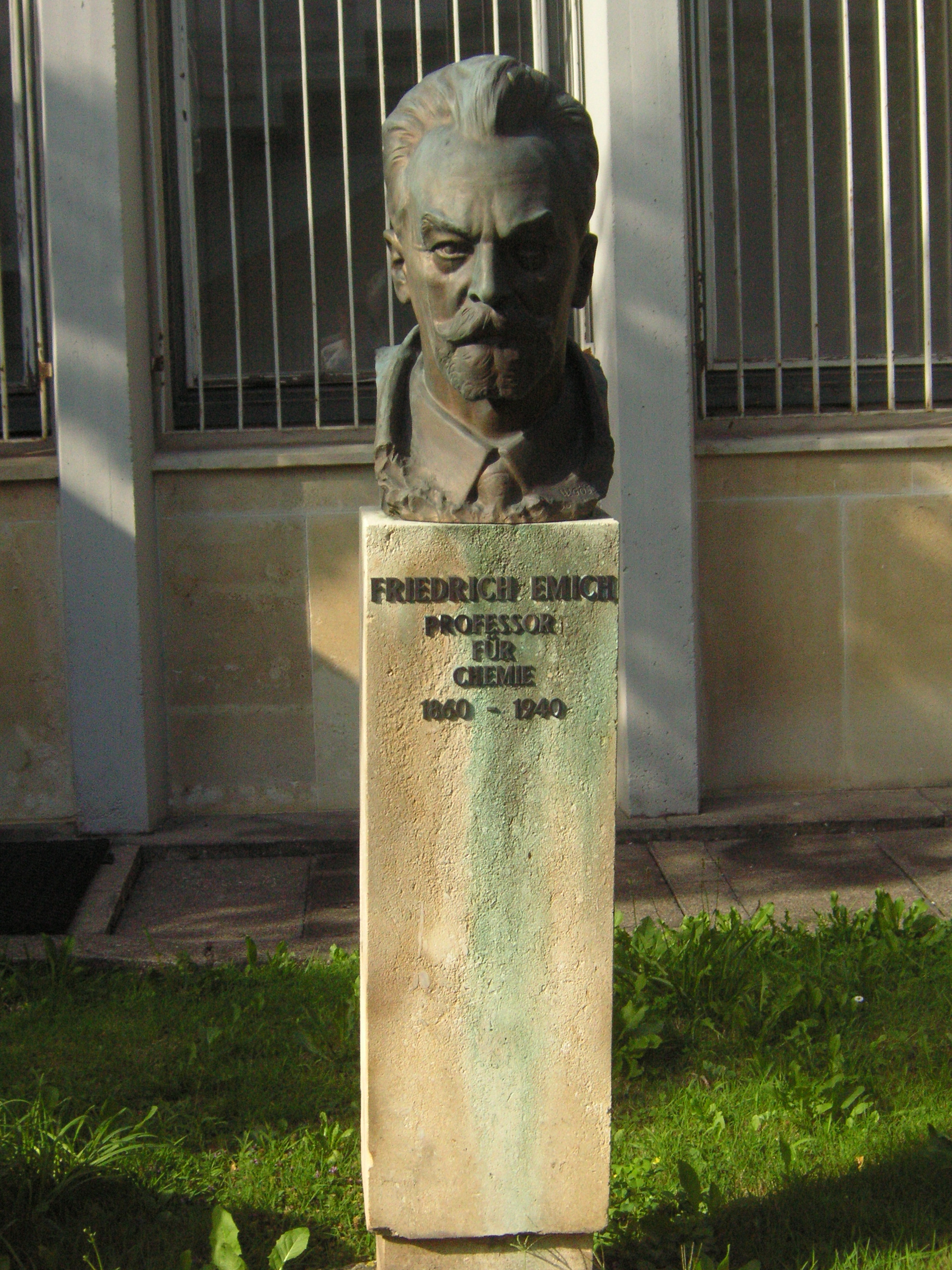 Bust of the austrian chemist Friedrich Emich at the University of Technology at Campus "Neue Technik" in Graz. Pictured 2012 (1960–2014) still in front of building Stremayrgasse 16, later in front of Petersgasse 12.